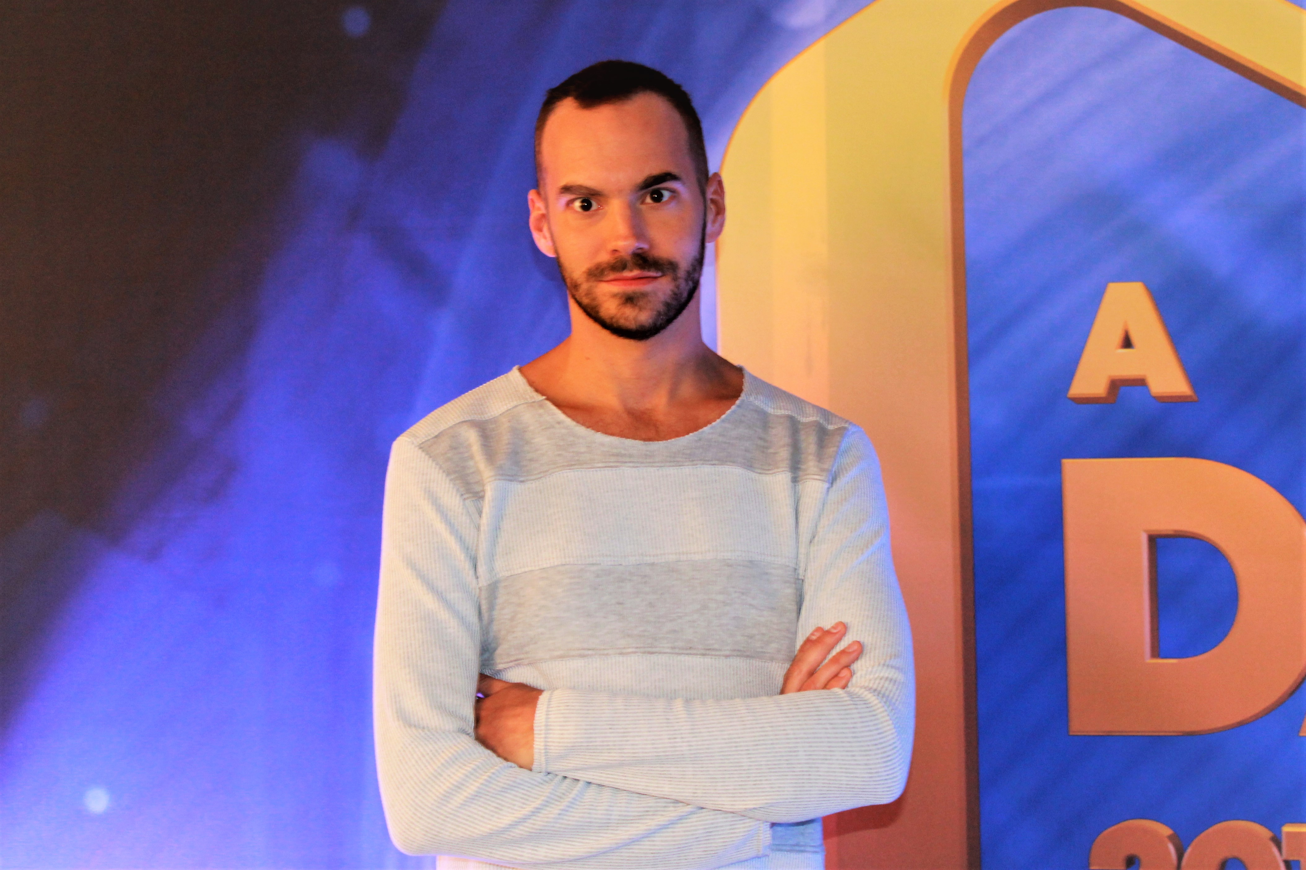 A Dal 2019 participant: Petruska